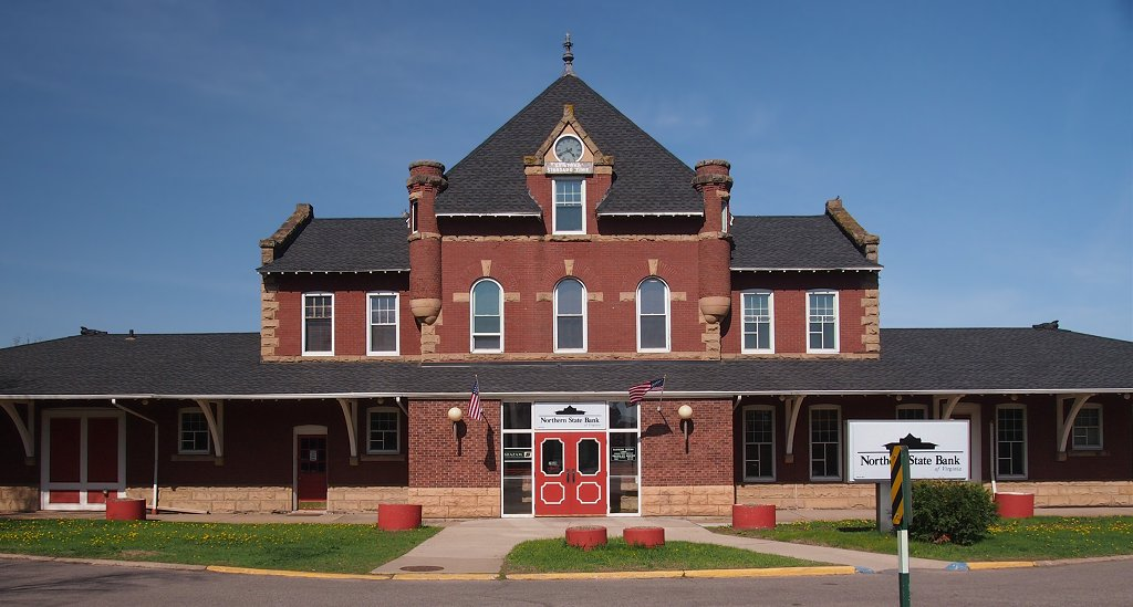 Duluth, Winnipeg, & Pacific Depot (now Northern State Bank), 600 Chestnut Street, Virginia, Minnesota, USA. Viewed from the east.